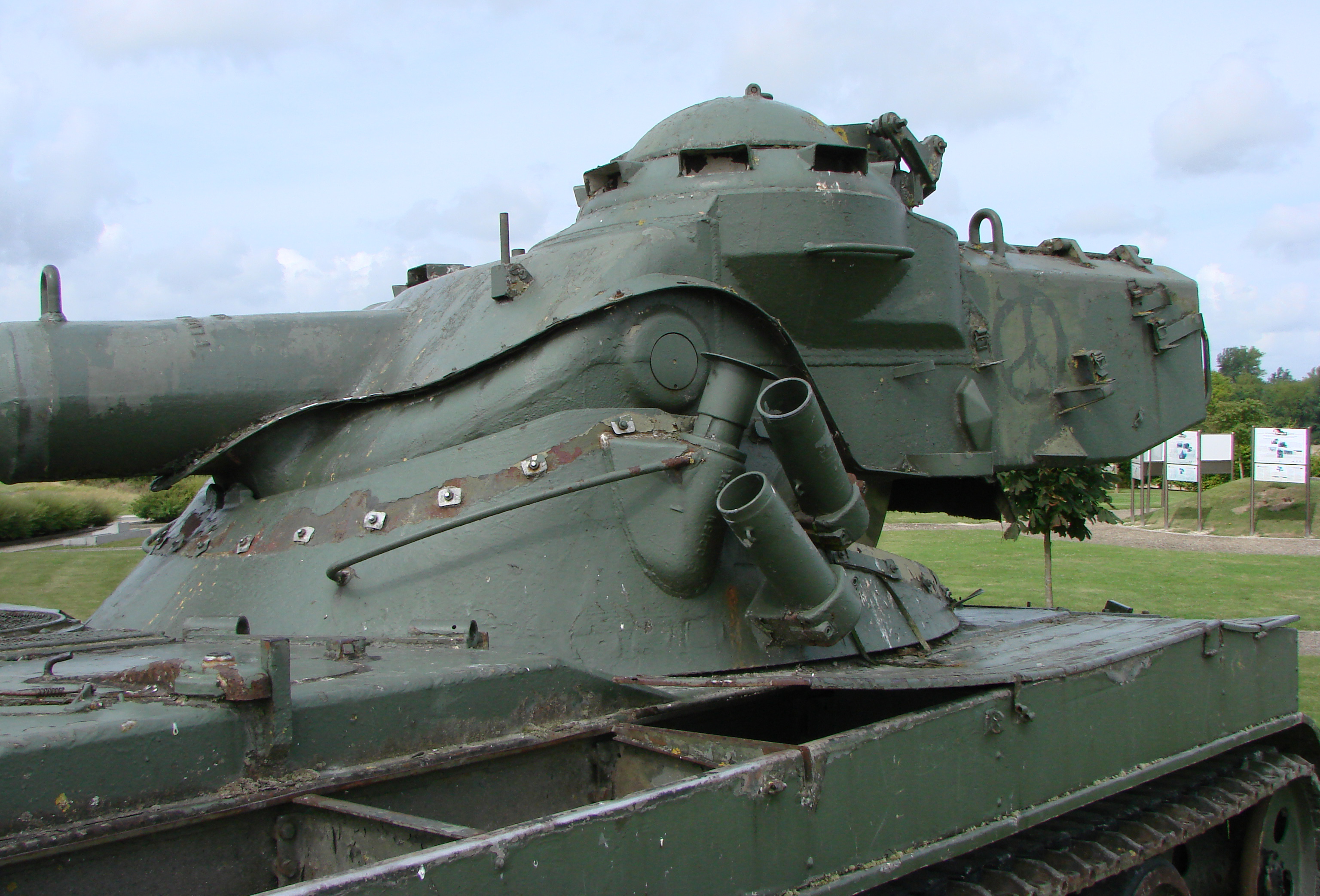 AMX-13.